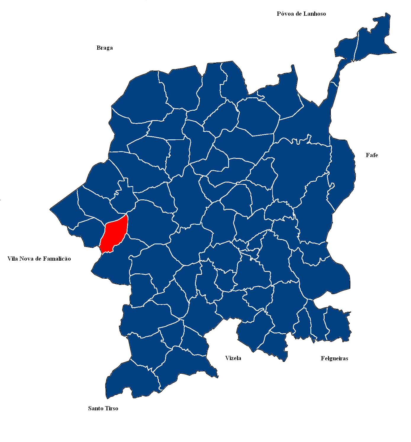 Map of Parish of Vermil, Guimarães, Portugal.